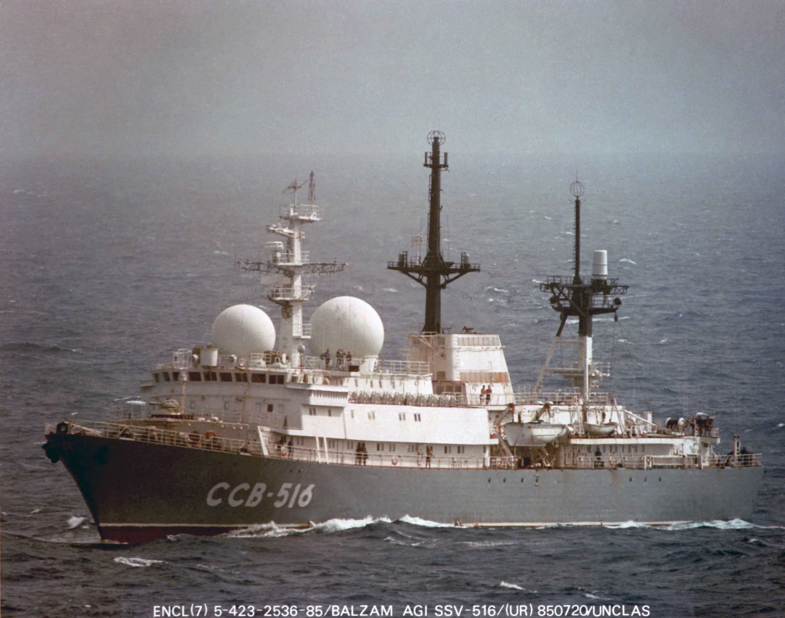 A port bow view of a Soviet Balzam class intelligence collection ship underway.